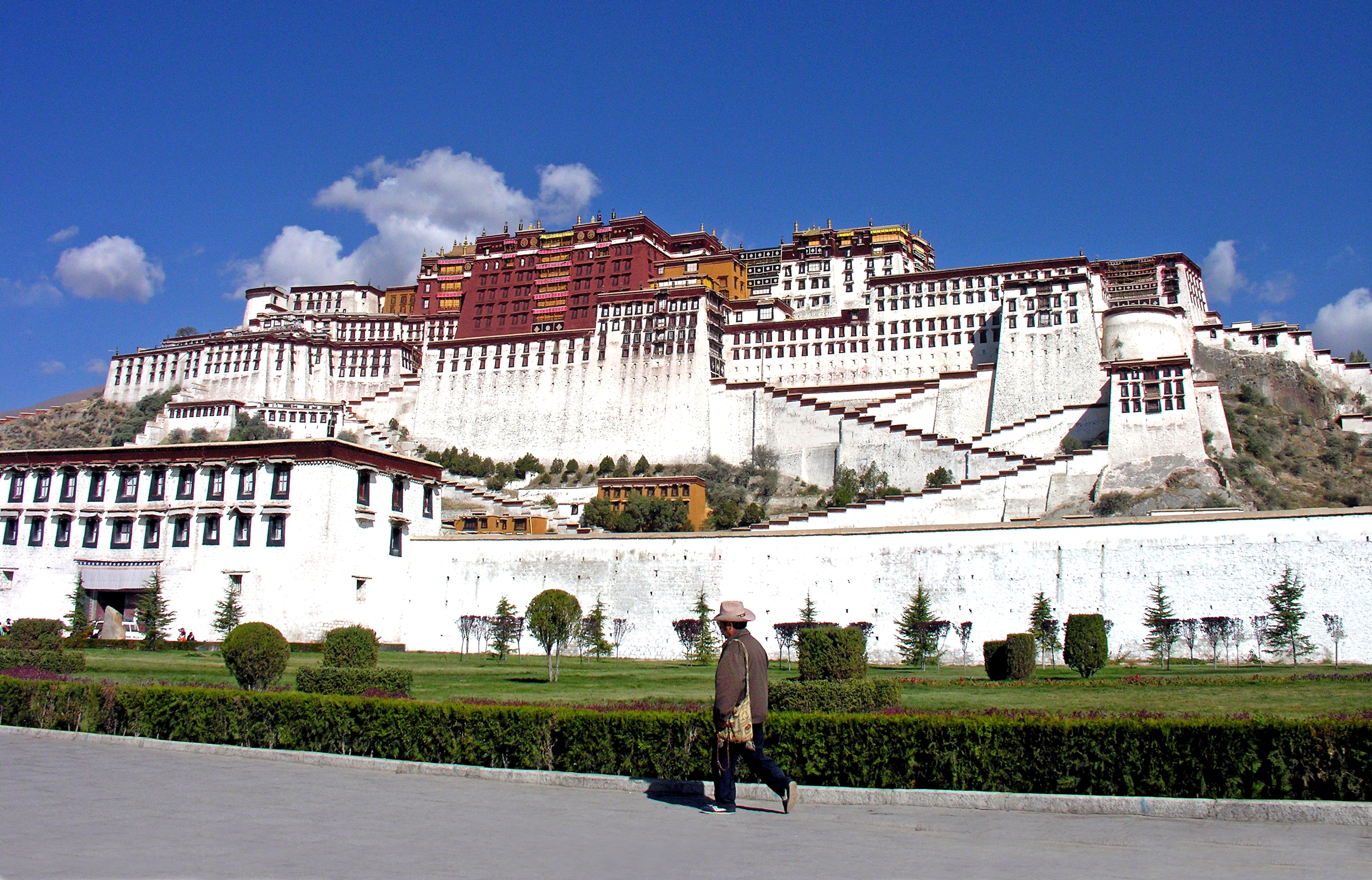 Potala Palace is on the Red Hill of Lhasa, Tibet. The Palace was rebuilt by the 5th Dalai Lama in 1645. It was the seat of Dalai Lamas and also the political center of Tibet. The 13th Dalai Lama extended it to the present size, 117 meters (384 ft) in height and 360 meters (1,180 ft) in width, covering an area of more than 130,000 sq meters. Comprised of the White Palace (administration building) and the Red Palace (religious building). Lhasa, Tibet